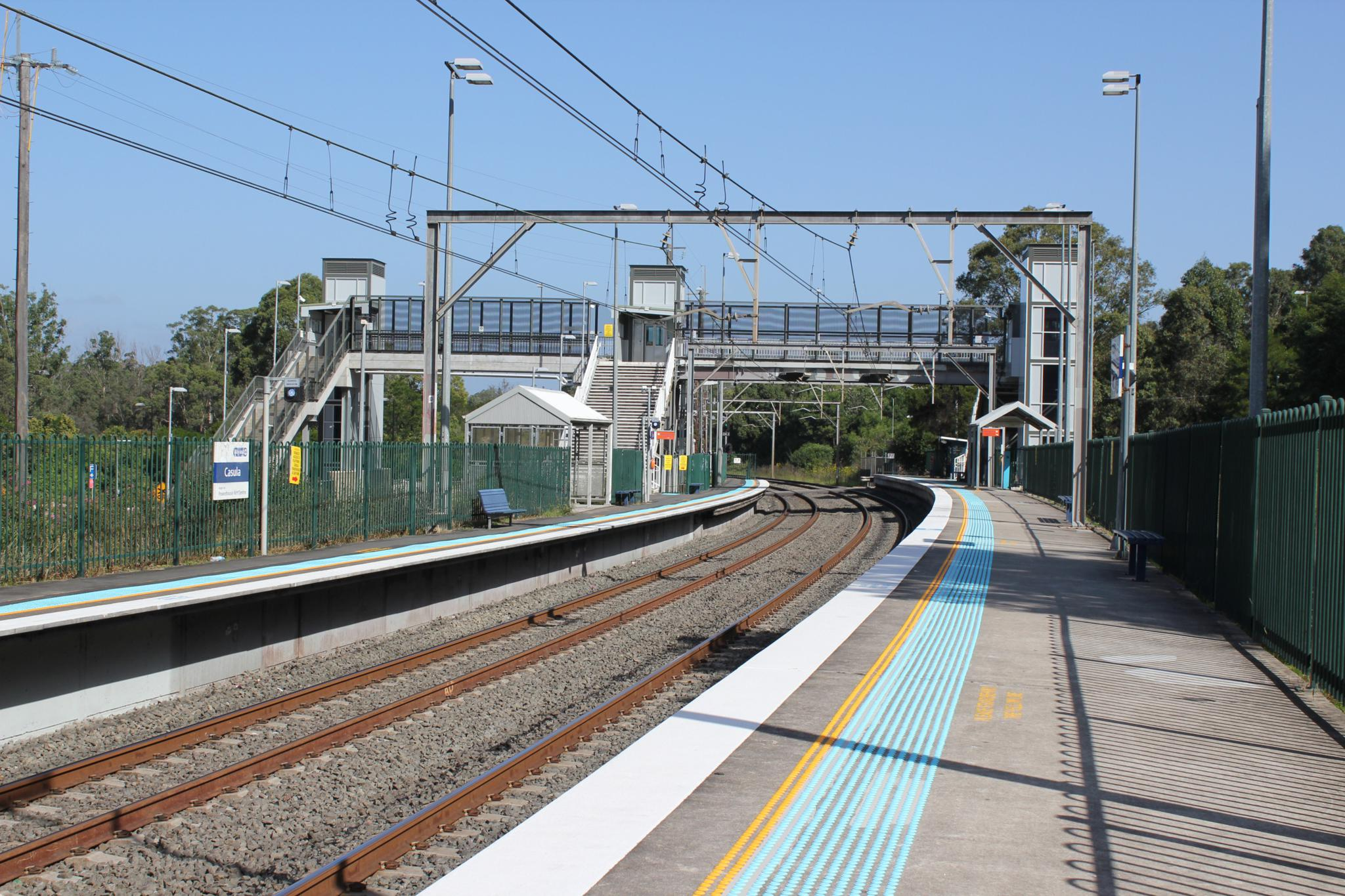 Footbridge